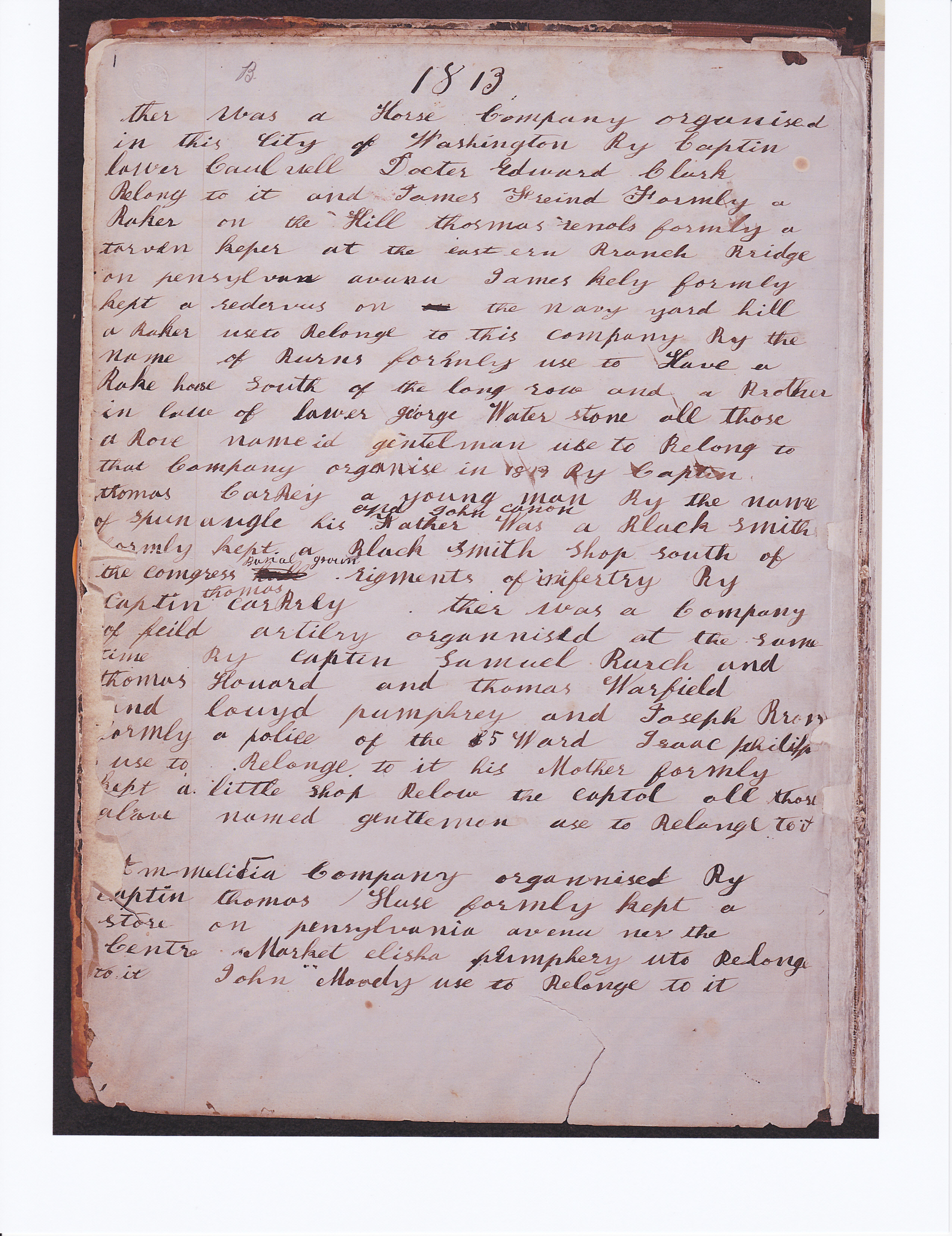 First page of Michael Shiner's Diary, 1813-1869, p 1. 1813. Library of Congress